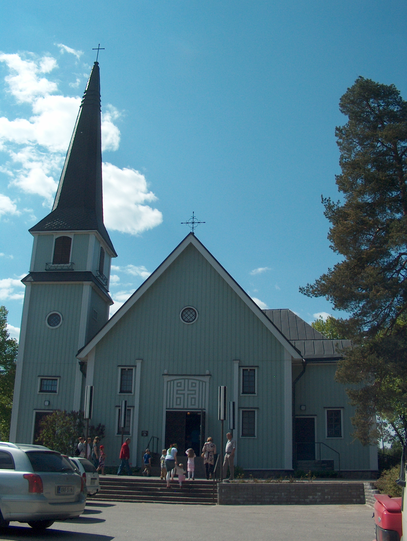 Keskuskirkko Church in Riihimäki, Finland. The church was built in 1905.